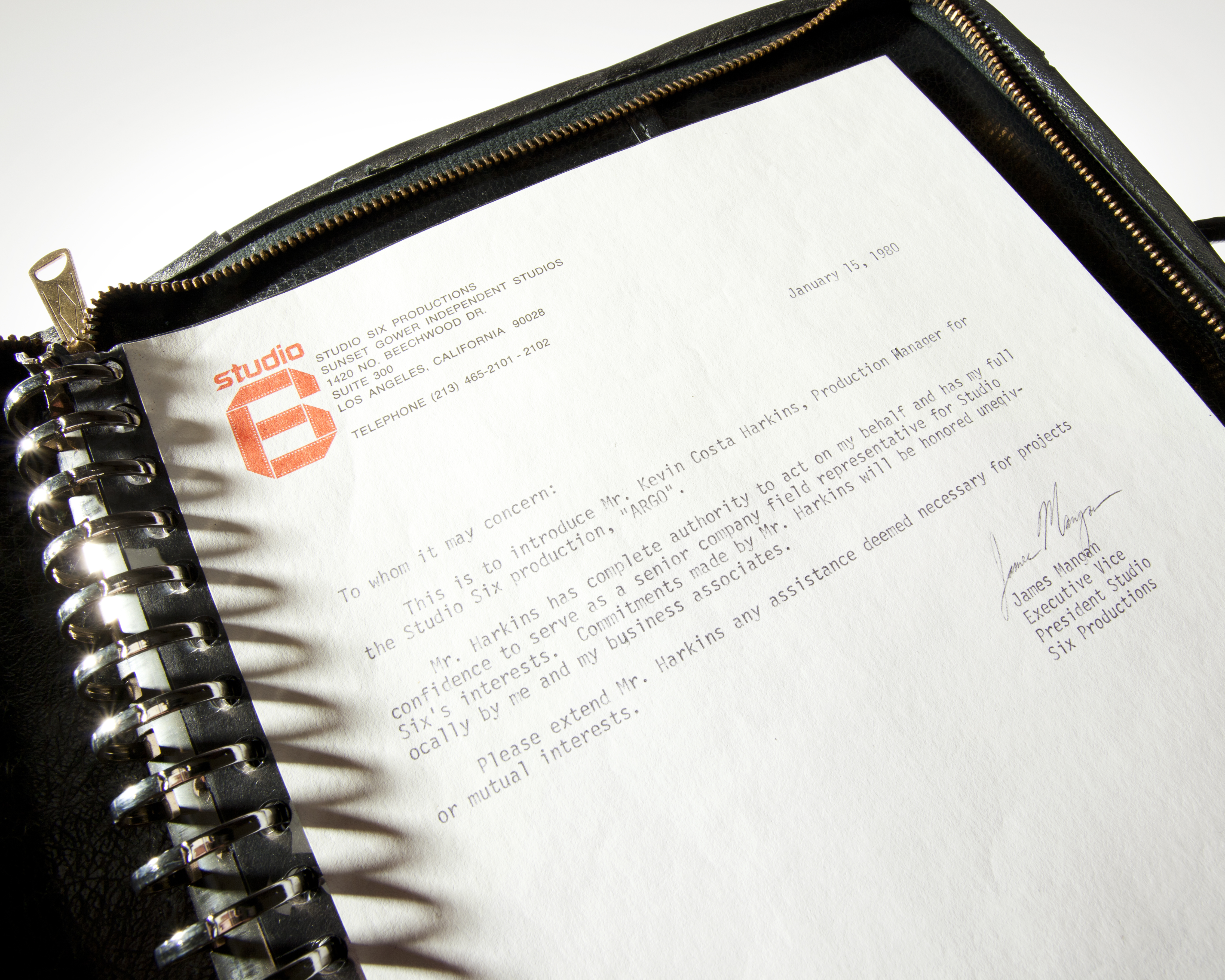 To rescue six American diplomats who evaded capture during the seizure of the United States embassy in Tehran, Iran, on 4 November 1979, CIA technical specialists created a fake movie-production company in Hollywood and delivered disguises and documents that made possible the diplomats’ escape from Iran in 1980. The team set up “Studio Six Productions” and titled its new production “Argo.” The company’s portfolio includes introduction and publicity documents. For more information on CIA history and this artifact please visit